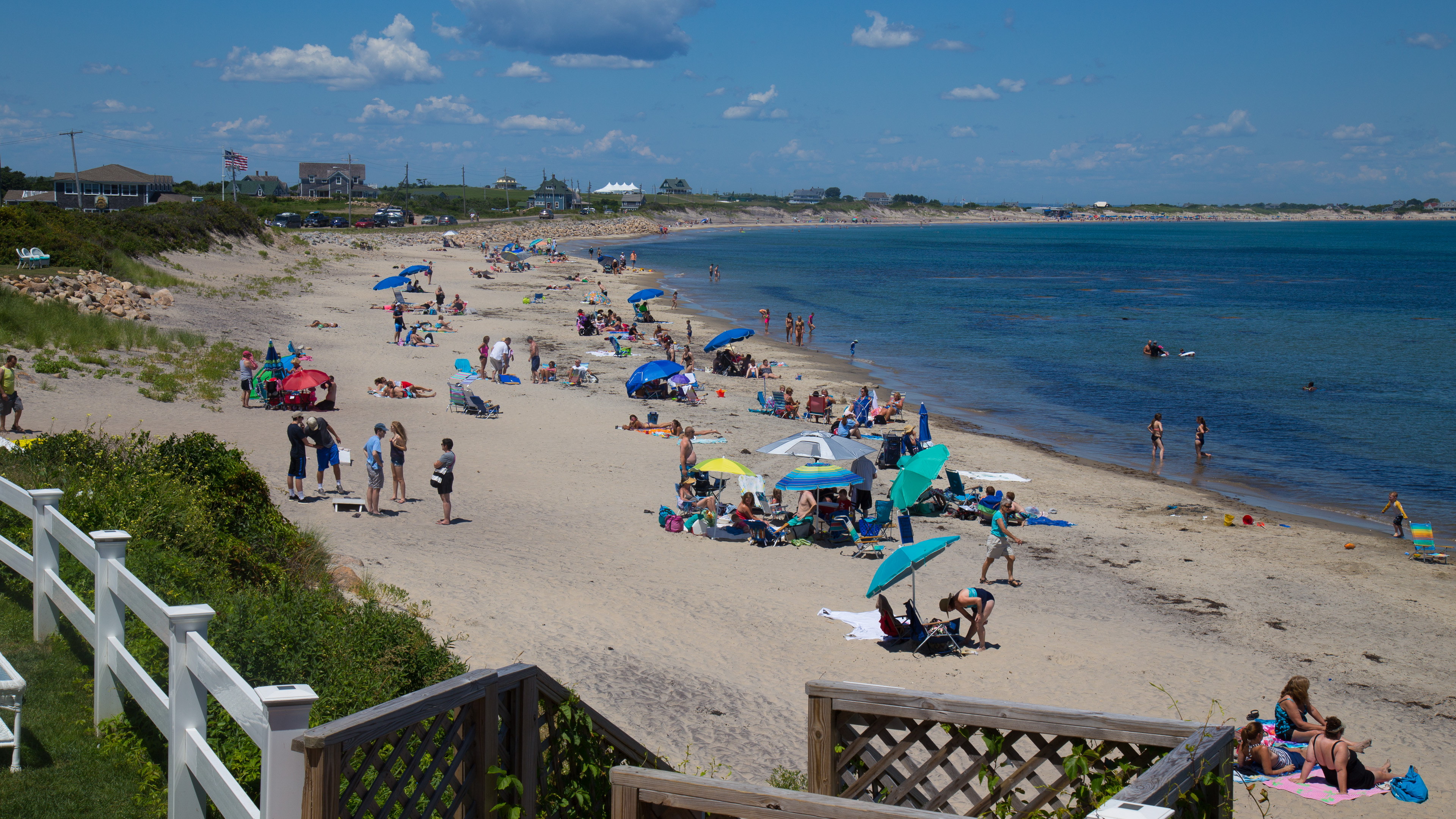 Crescent Beach on Block Island July 23, 2015 taken from the deck of the Surf Hotel.